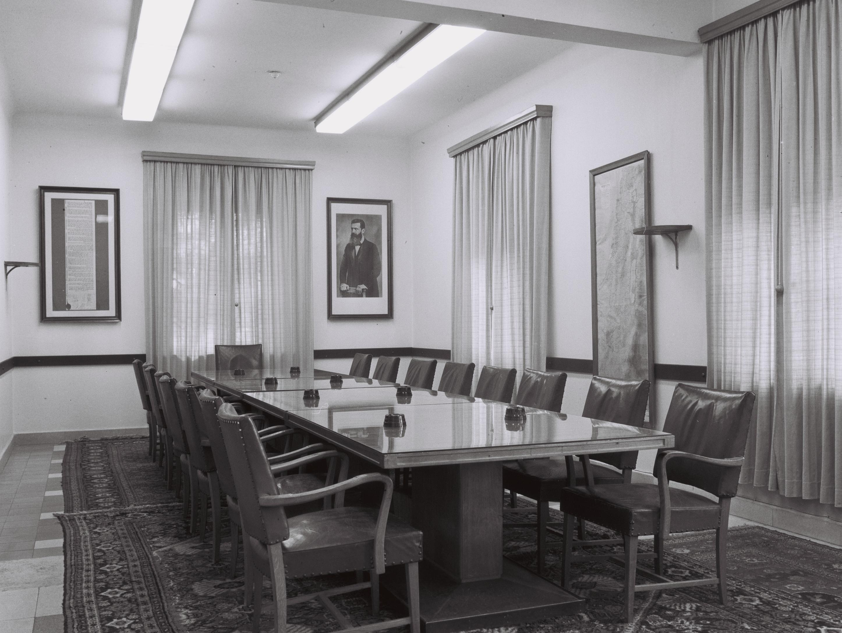 CONFERENCE ROOM AT PRIME MINISTER'S OFFICE AT HAKIRYA, TEL AVIV. IN 1948, THE FIRST MEETINGS OF THE PROVISIONAL GOVERNMENT OF ISRAEL TOOK PLACE.